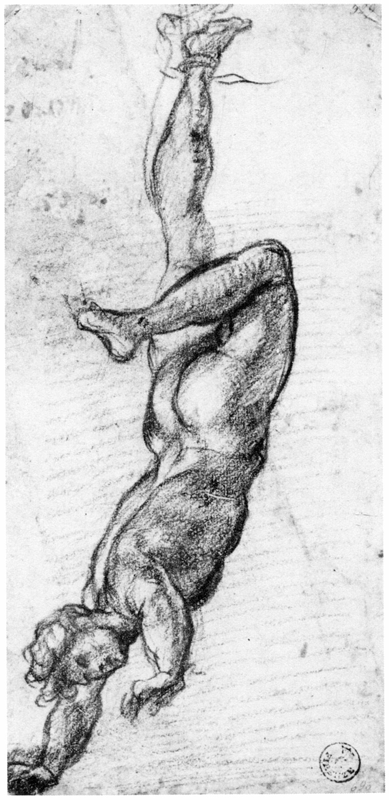 Drawing, in red chalk on white paper, of a man hanged by one foot. This was a preparatory sketch for a pittura infamante or shame painting. It is located in the Galleria degli Uffizi, Florence, Italy. Hanging by one foot was a method of execution, prolonged and particularly degrading. In Germany it was usually associated with Jews and called the "Jewish Execution", while in Italy it was usually associated with traitors. Shame paintings, depicting such hanging in effigy, were common in some parts of Italy, including Florence. Andrea del Sarto drew seven such images which have survived. One of the Tarot trump cards shows such a hanged man, which was called il traditore (The Traitor) in most early sources.